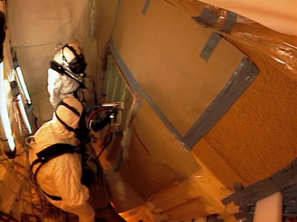 Technicians spray foam insulation on a section of repaired stringers on space shuttle Discovery's external fuel tank.